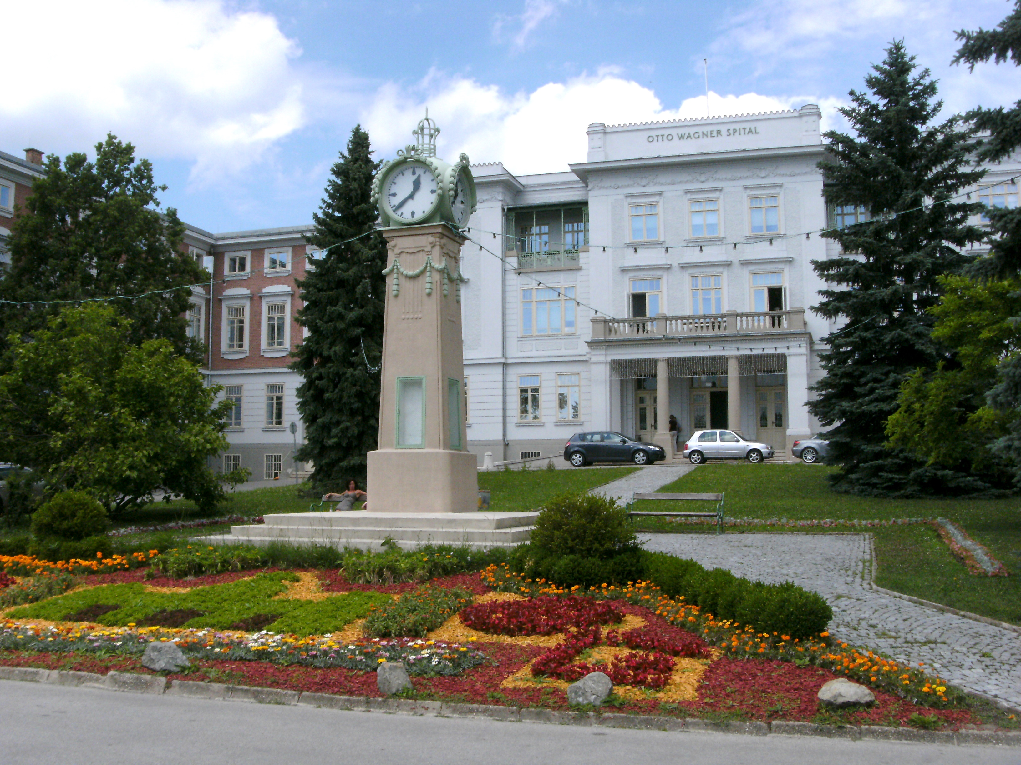 Administration building of Otto-Wagner-Spital in Vienna's 14th district